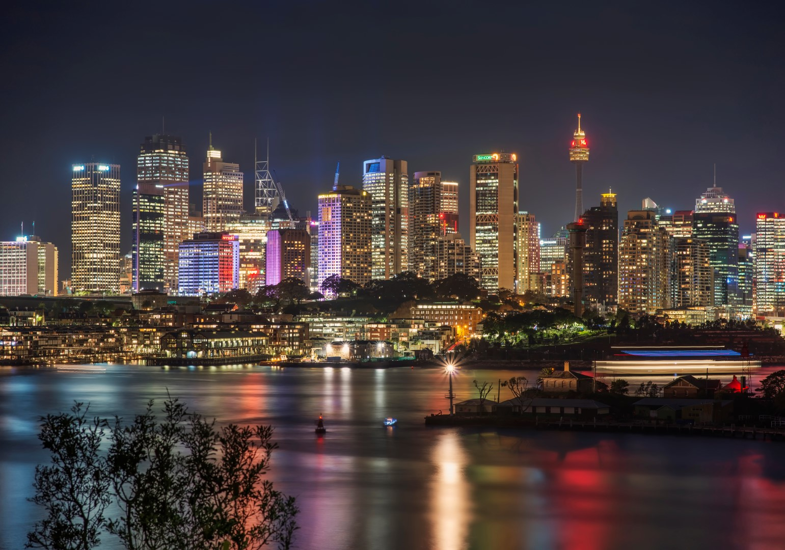 A view of Sydney Sydney from Waverton Sydney Australia